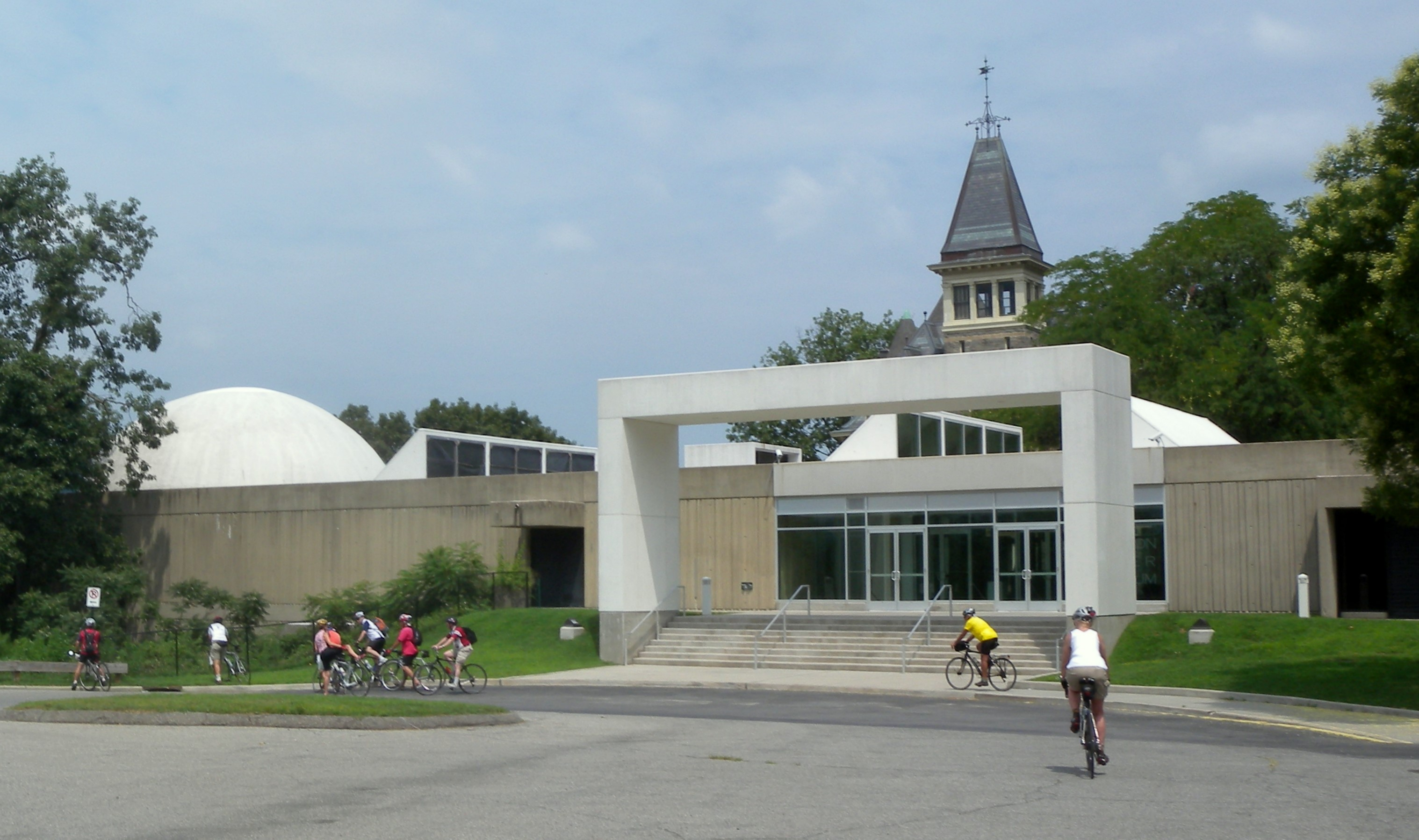 Looking north at the Hudson River Museum, Yonkers, New York, on a mostly sunny midday.